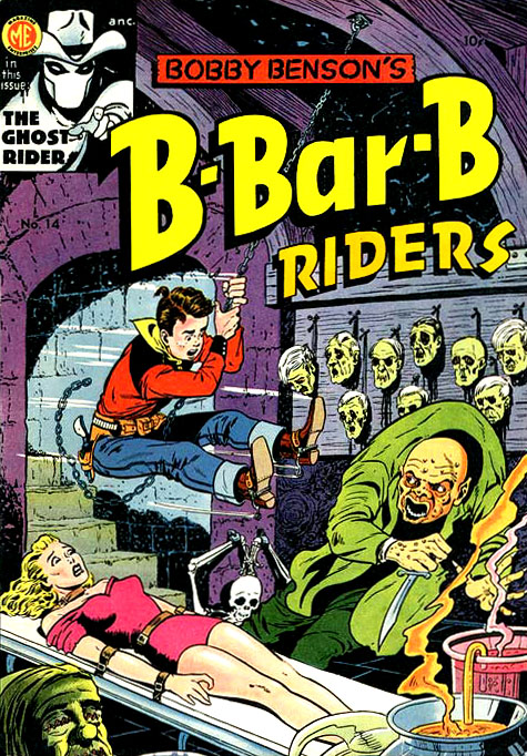 Comic book cover of Bobby Benson's B-Bar-B Riders #14 (1952)